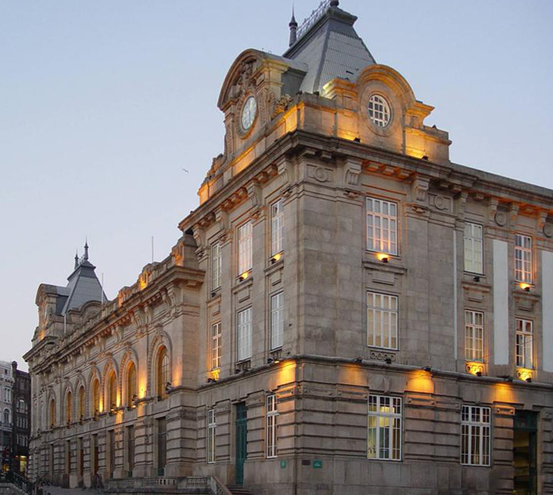 Porto São Bento train station, Porto, Portugal